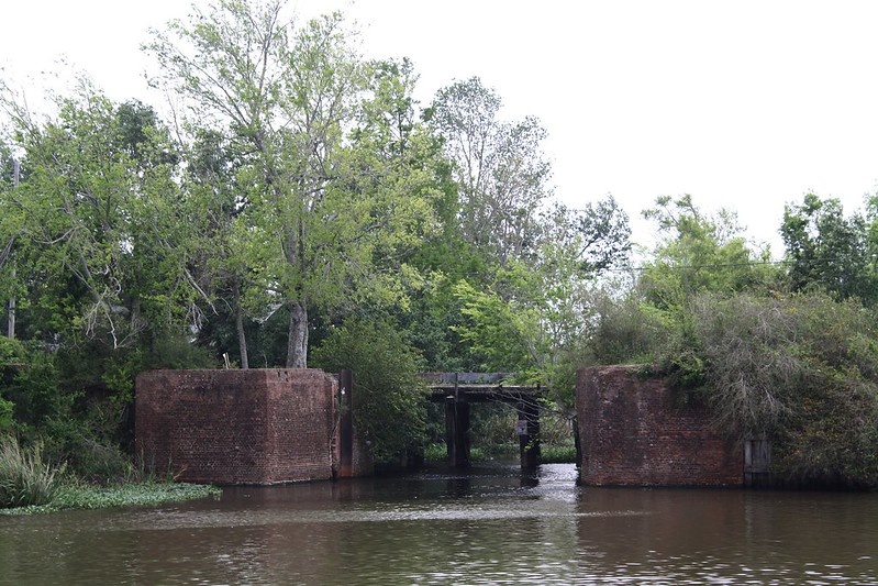 Text from historic marker: "Ruins of locks not washed away by a crevasse in 1917 are near here for which Lockport in named. An earlier settlement was named Longueville by 1835 when William Fields donated land for a canal later known as the Company Canal which connected Bayou Terrebonne with New Orleans across the lakes and Bayou Lafourche. After the locks were built in 1850, the name of the settlement changed, and the town was incorporated in 1899 as Lockport."